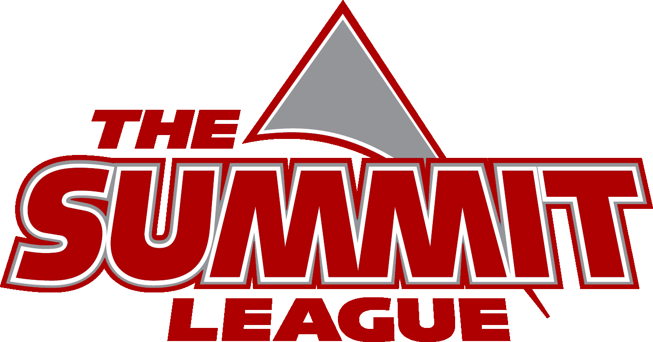 Summit League Logo in USD's Colorway